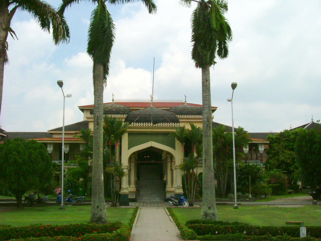 Maimoon Palace, Medan, Indonesia